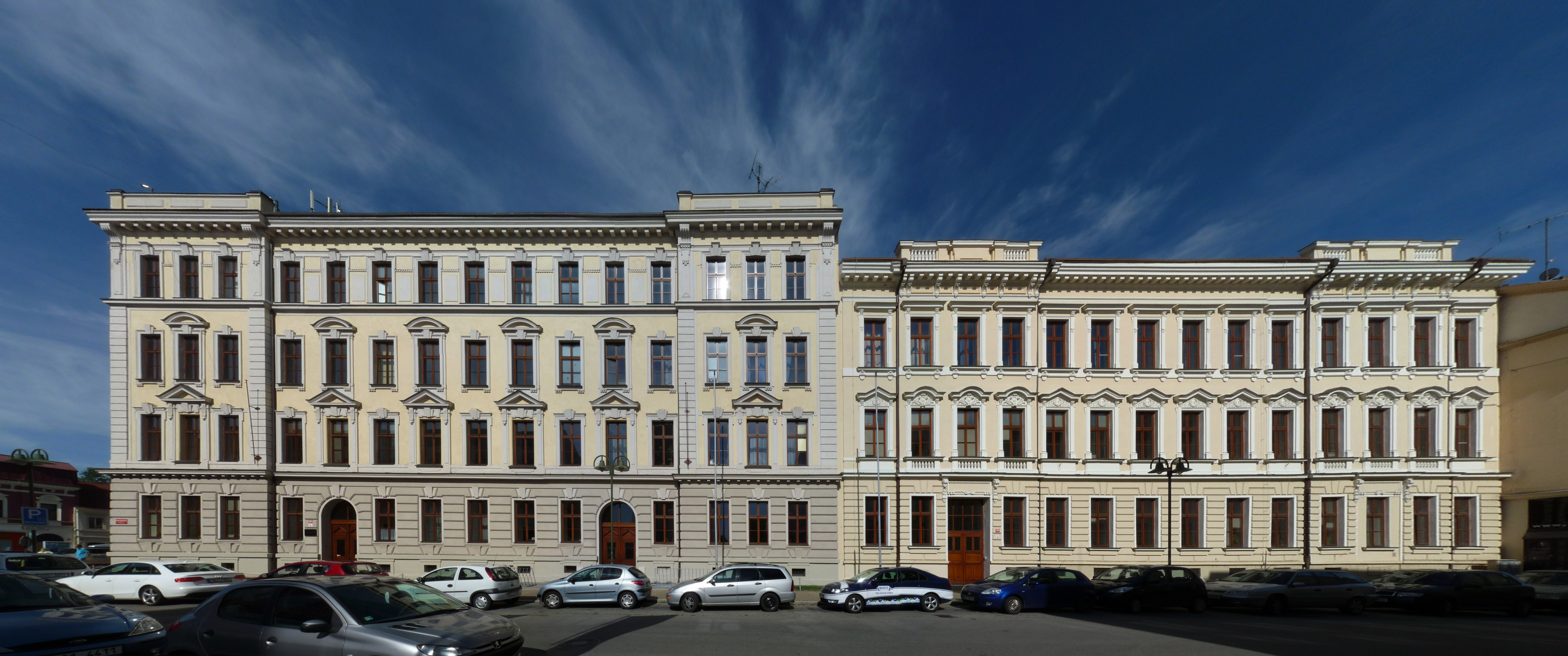 Faculty of Pedagogy, University of South Bohemia, Dukelská Street in the town of České Budějovice, South Bohemian Region, Czech Republic.